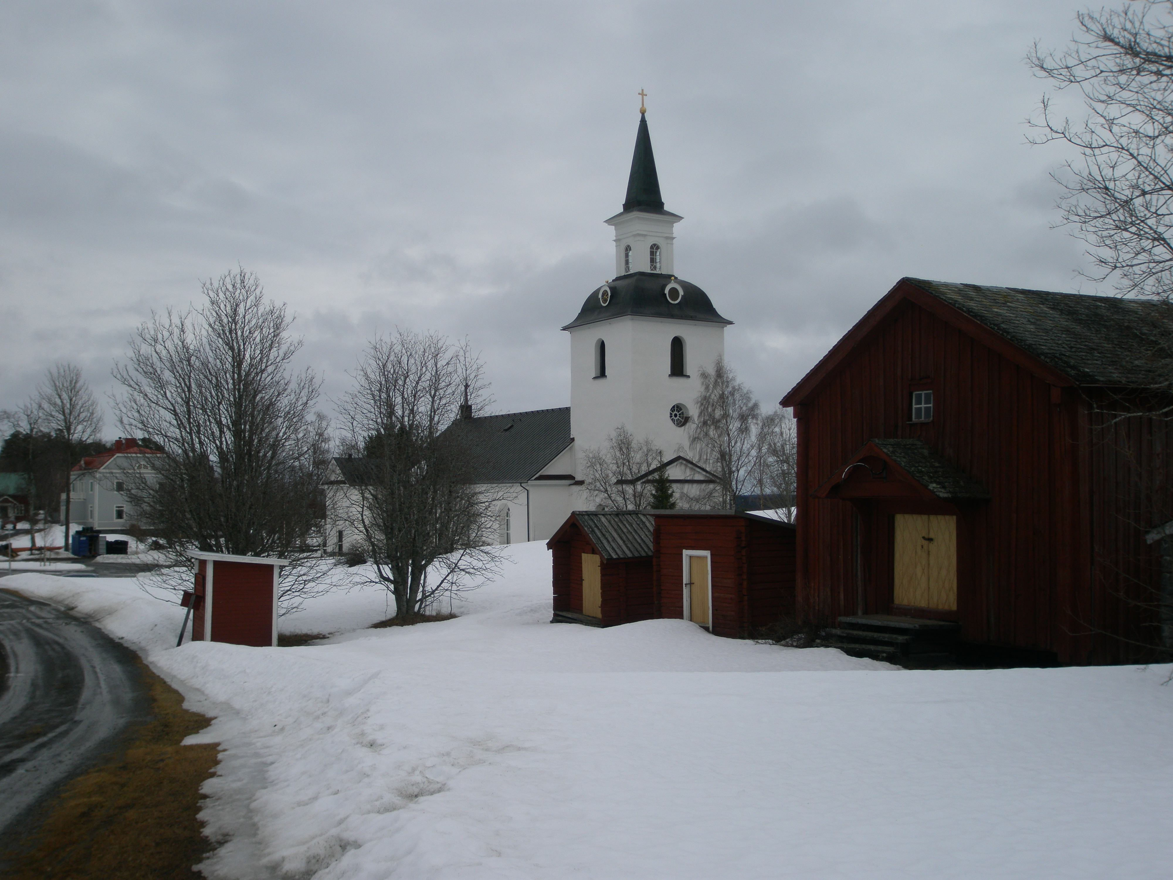 Ede, Offerdal, Krokom, Jämtland, Sweden.